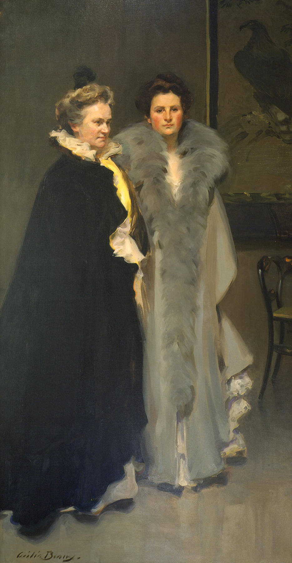 Mother and Daughter (Mrs. Clement Acton Griscom and Frances C. Griscom), Pennsylvania Academy of the Fine Arts, Philadelphia, Pennsylvania.